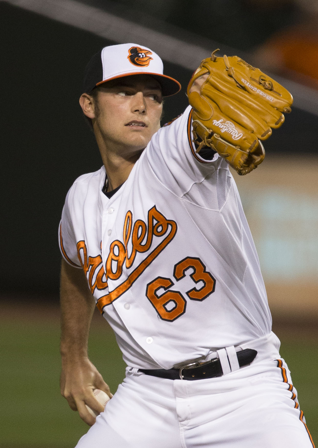 Mariners at Orioles 5/20/15